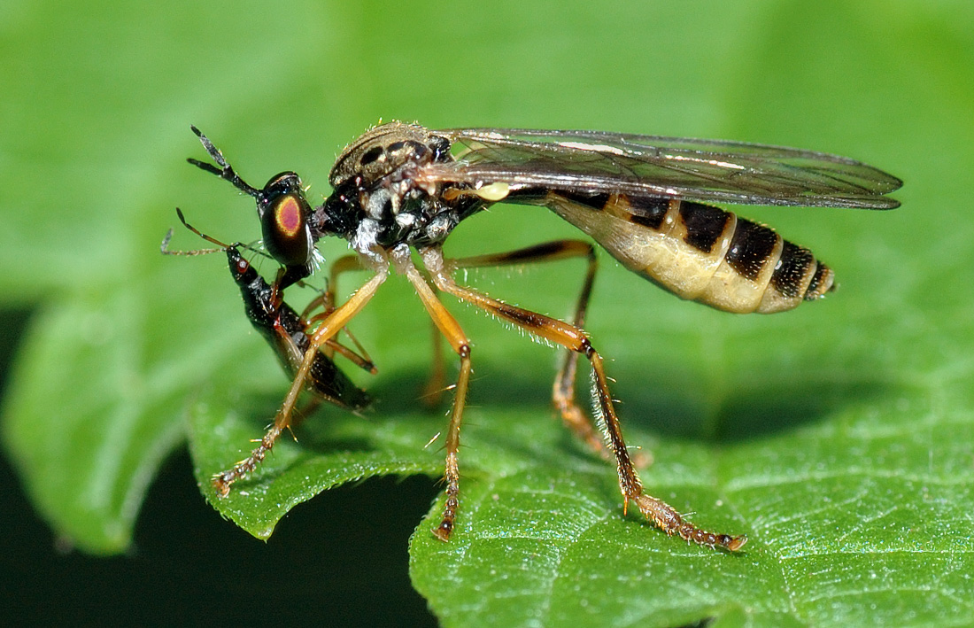 This image shows an 0.3 inch (8 mm) long female robber fly of the species Dioctria linearis while sucking a bug of the species Anthocoris nemorum. Thanks to Doc Taxon for identifying these animals.